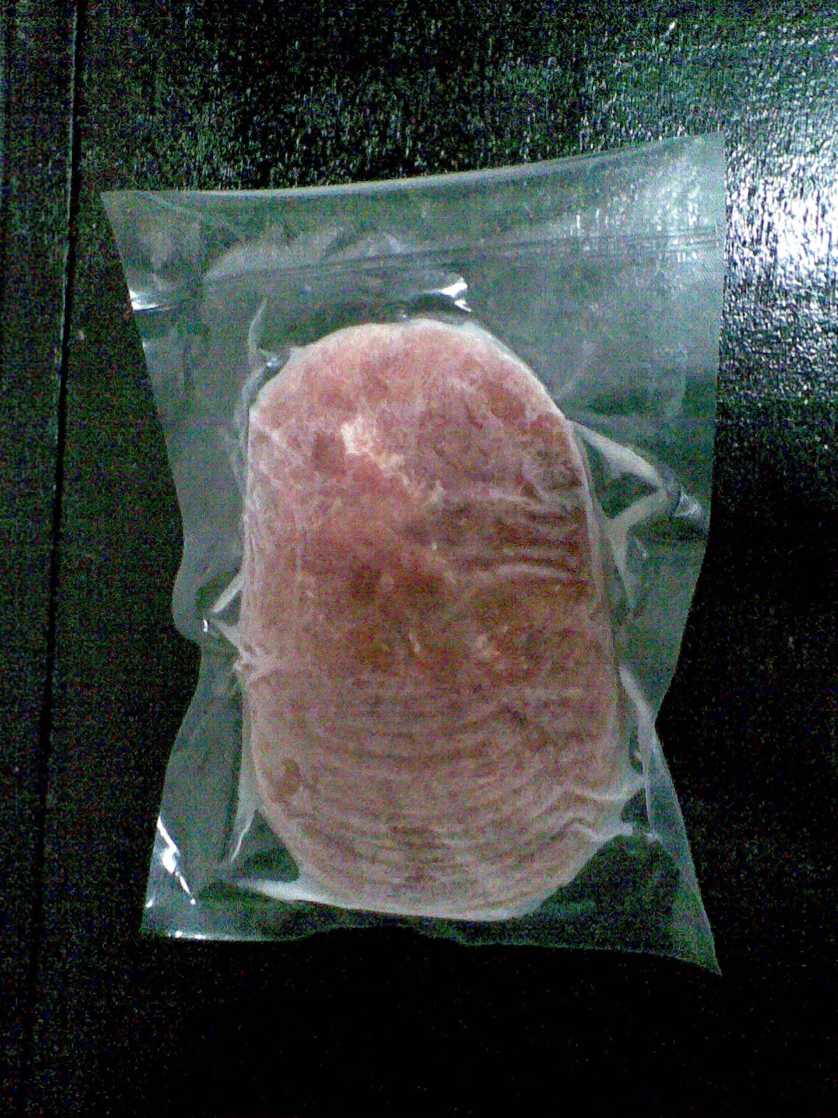 vacuum sealed cold cuts